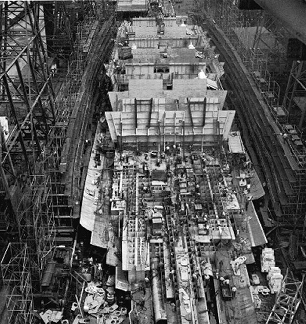 USS Illinois under construction, about 12% complete. US Navy photo, taken from [1]